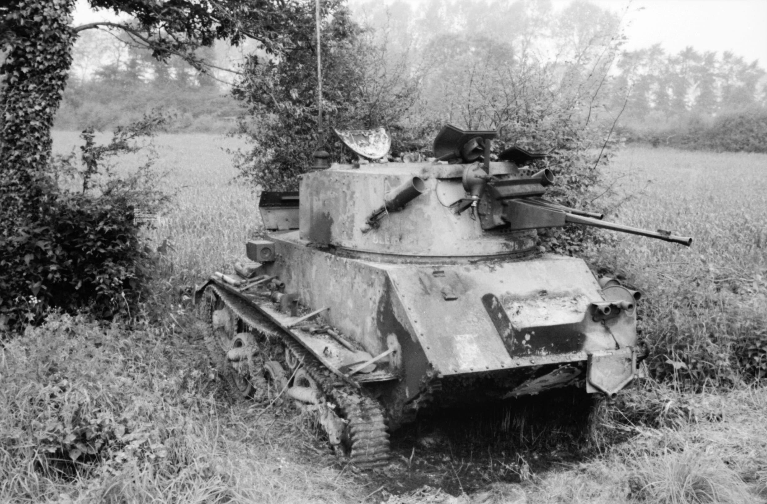 The British Army in France 1940 Vickers Light Tank Mk VIC knocked out during an engagement on 27 May 1940 on the road between Huppy and St Maxent in the Somme sector.